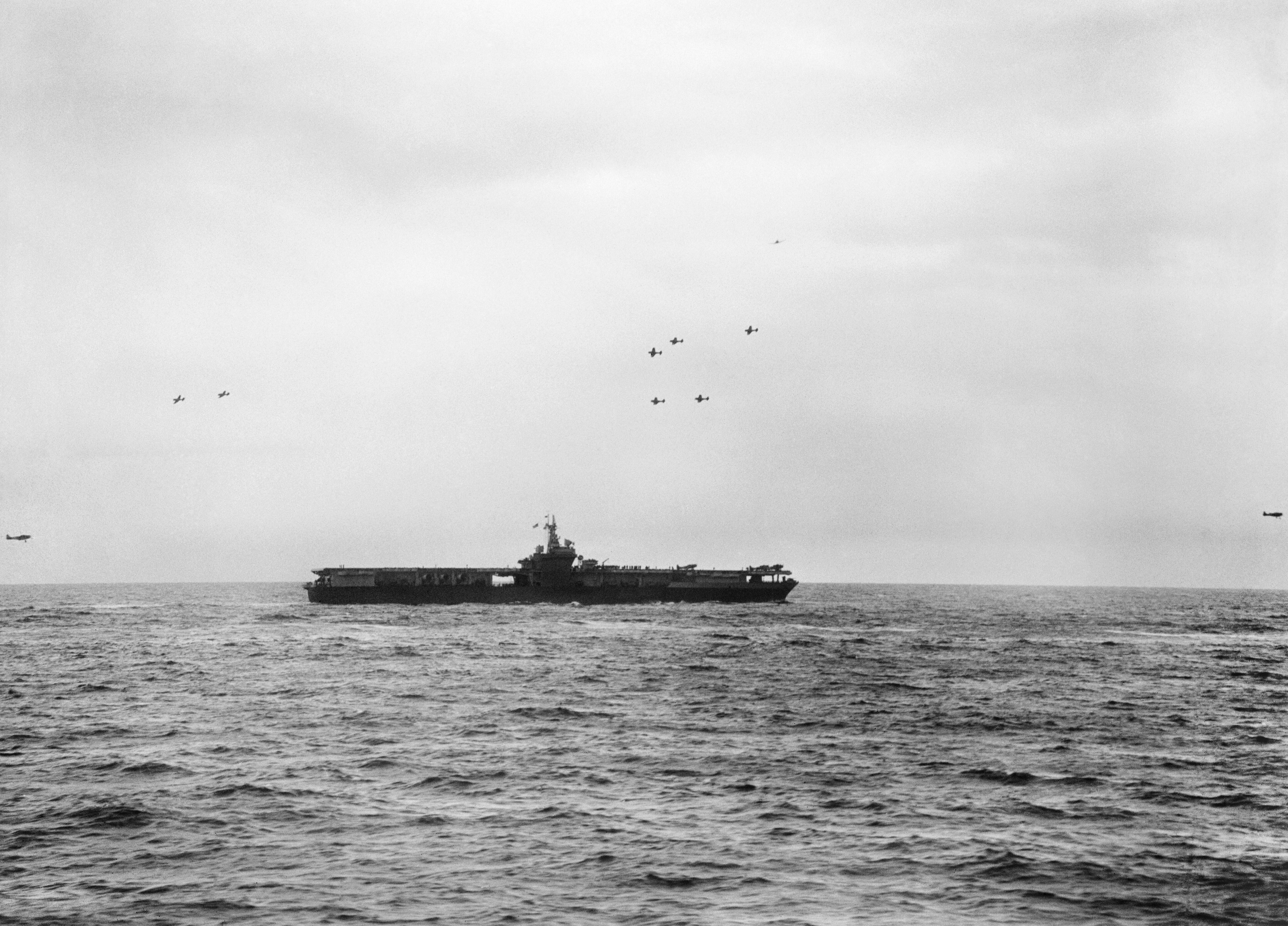 Home Fleet and US Ships in Norway Attack. October 1943, on Board HMS Belfast. the Home Fleet, Under the Command of Admiral Sir Bruce Fraser, Carried Out An Operation Against Enemy Shipping in the Norwegian Fiords in the Bodo Are, 70 Miles South of the Lofoten Islands. in the Force Were US Ships, Including An Aircraft Carrier Whose Aircraft Scored Bomb Hits on a Cluster of Large Enemy Supply Vessels. The US Carrier RANGER.